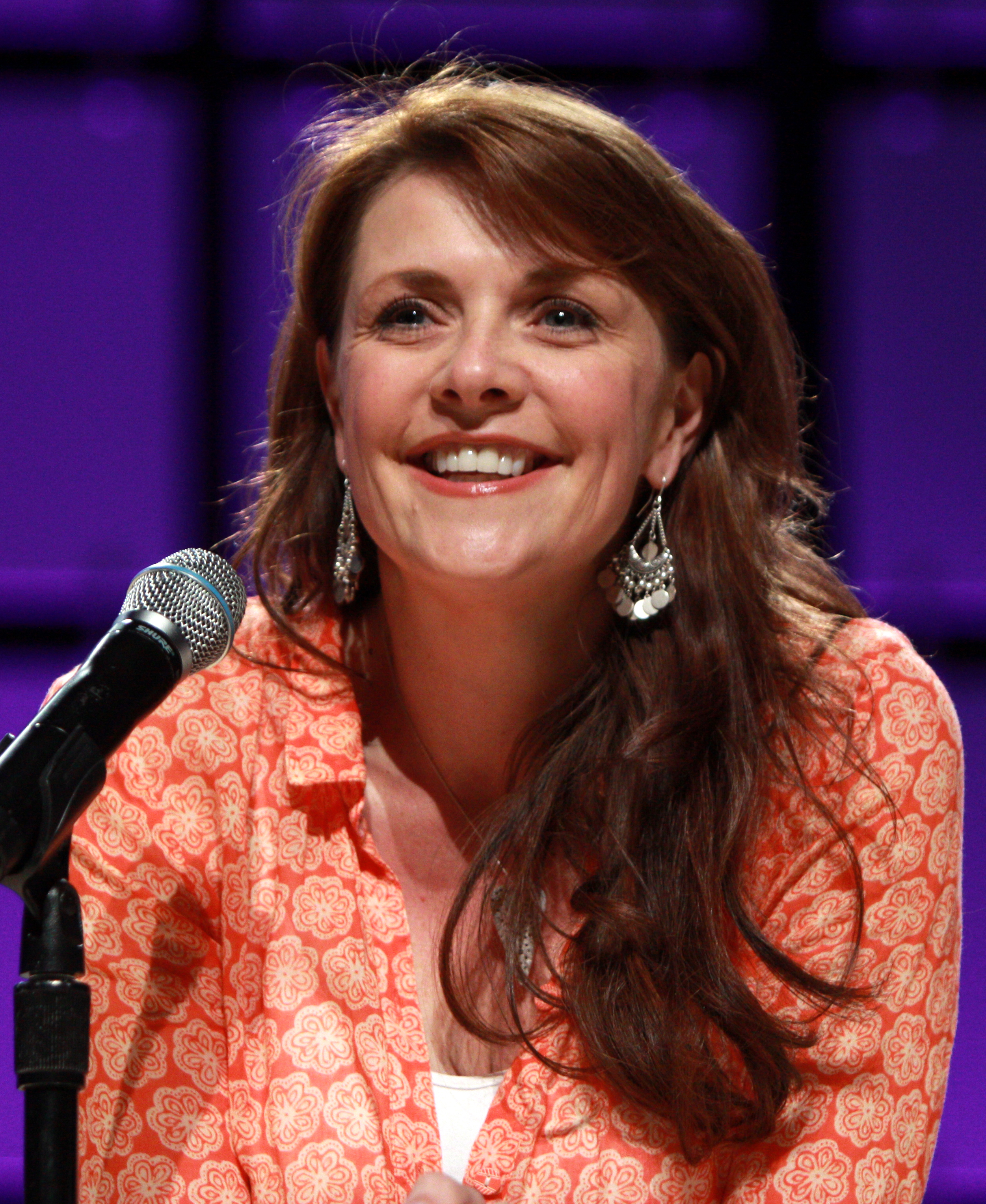 Amanda Tapping at the 2013 Phoenix Comicon in Phoenix, Arizona.